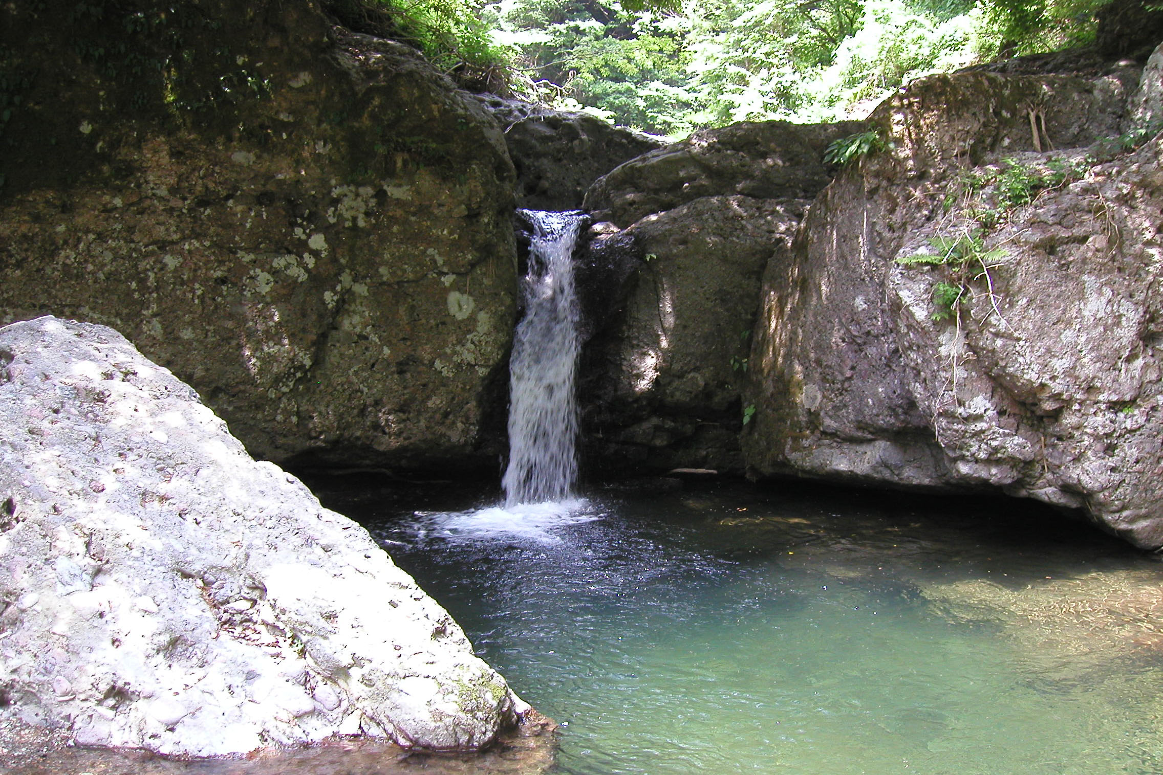 Ase valley in Toyooka, Hyogo Prefecture, Japan.